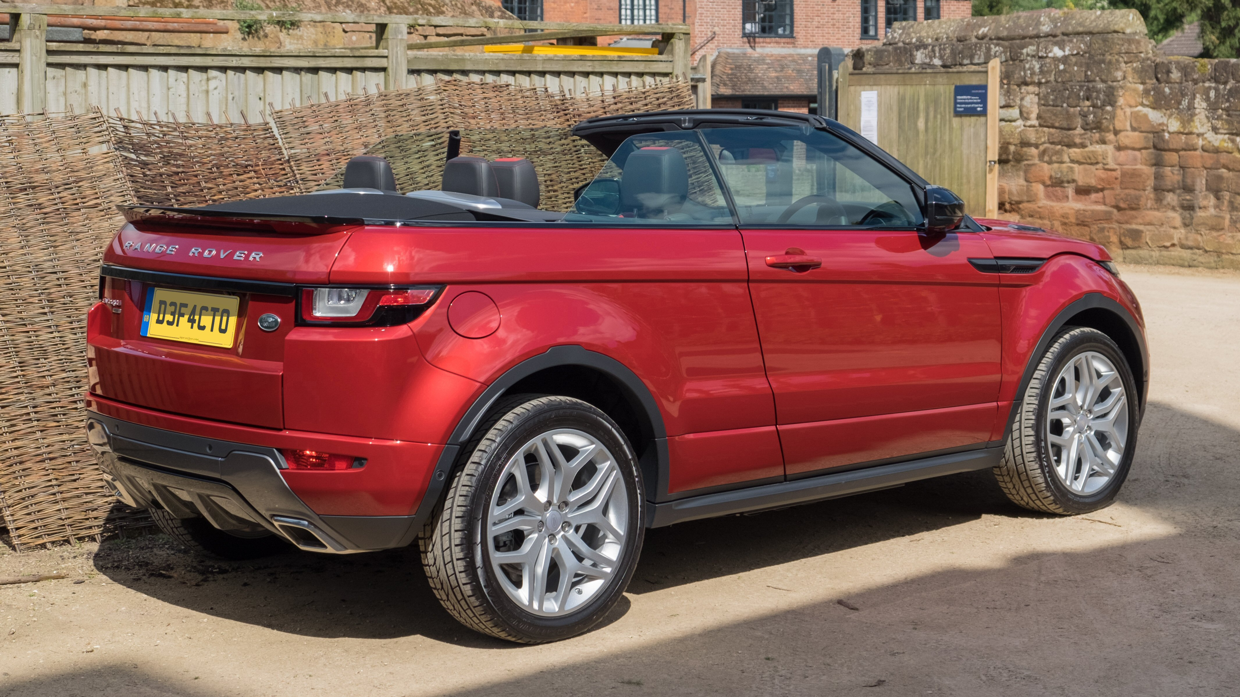 A 2016 Land Rover Range Rover Evoque Convertible HSE